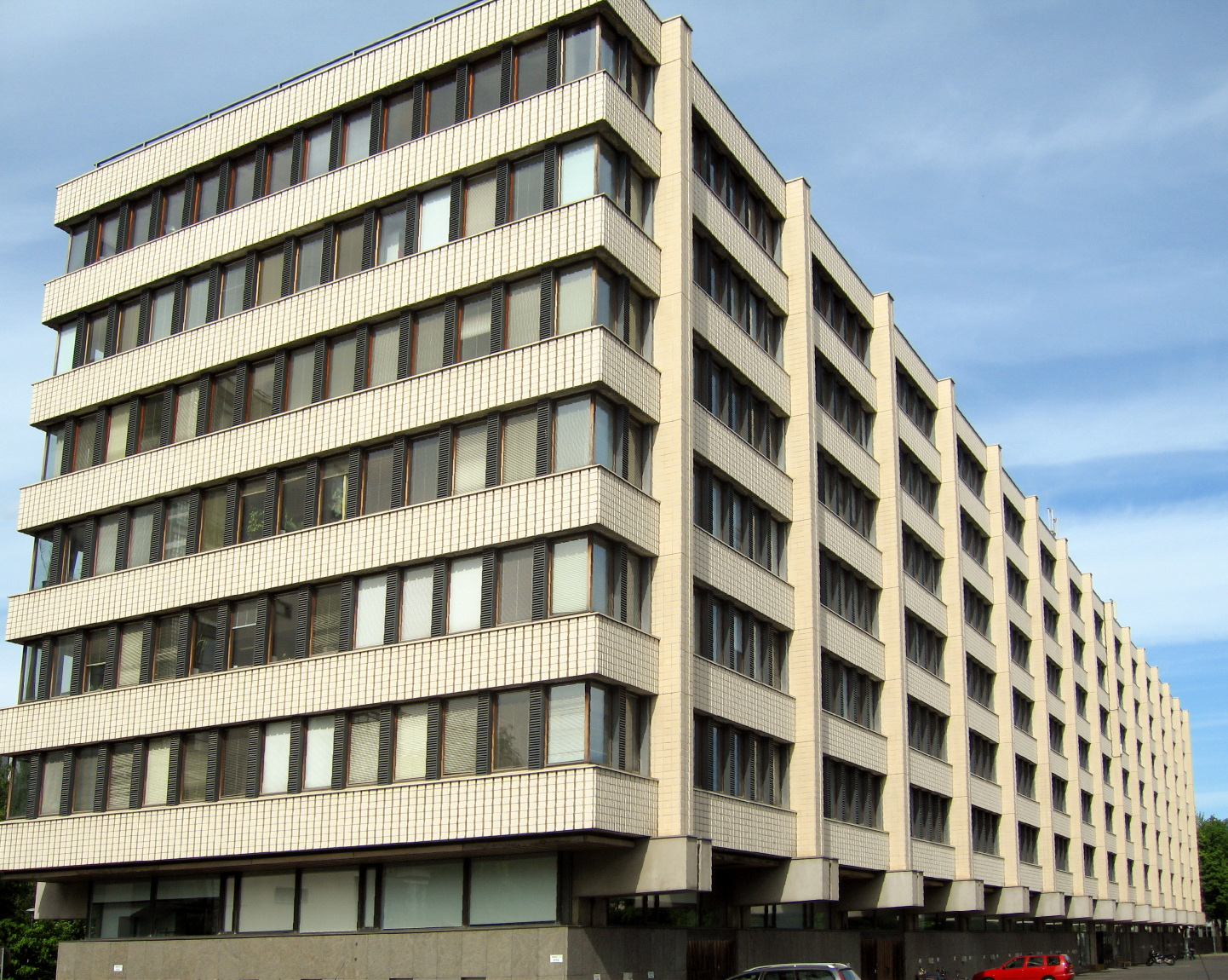 Finnish Environment Institute in Helsinki. Until 1993 this was Yleisradio building (address Kesäkatu 2).